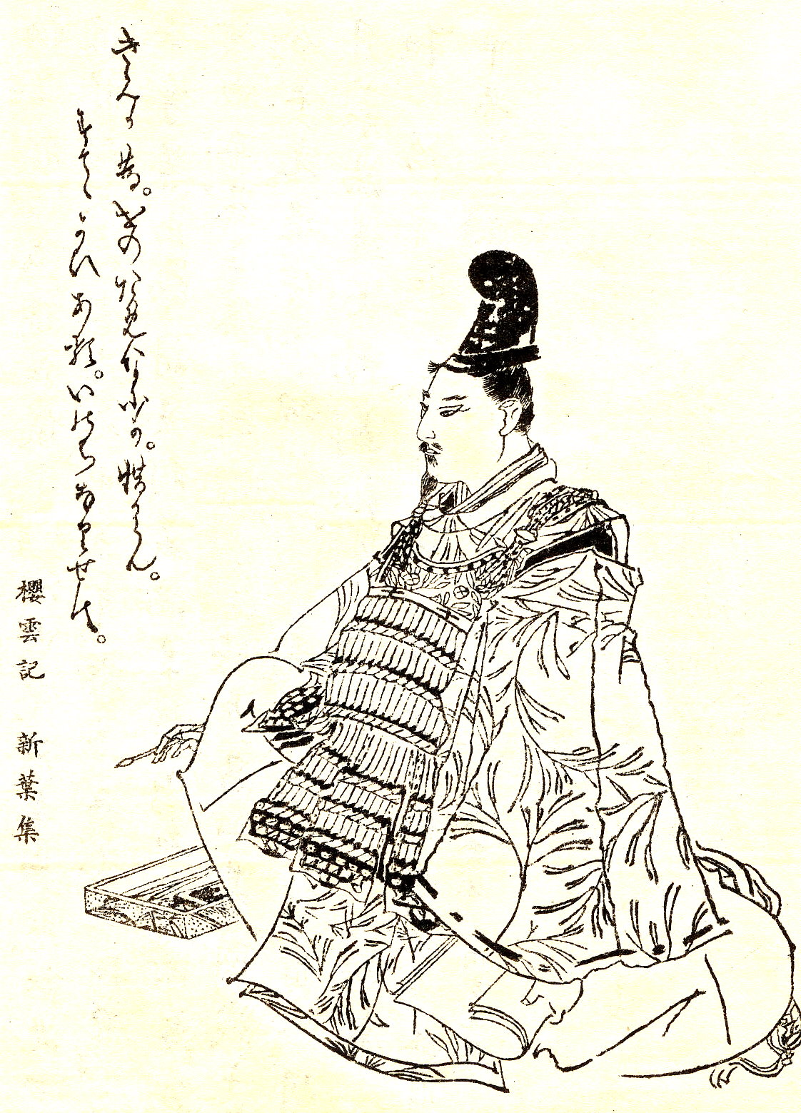 Prince Munenaga (宗良親王), an imperial prince (the eighth son of Emperor Godaigo) and a poet of the Nijō poetic school of Nanboku-chō period, mostly known for his compilation of the Shin'yō Wakashū.This picture was drawn by Kikuchi Yosai（菊池容斎） who was a painter in Japan.